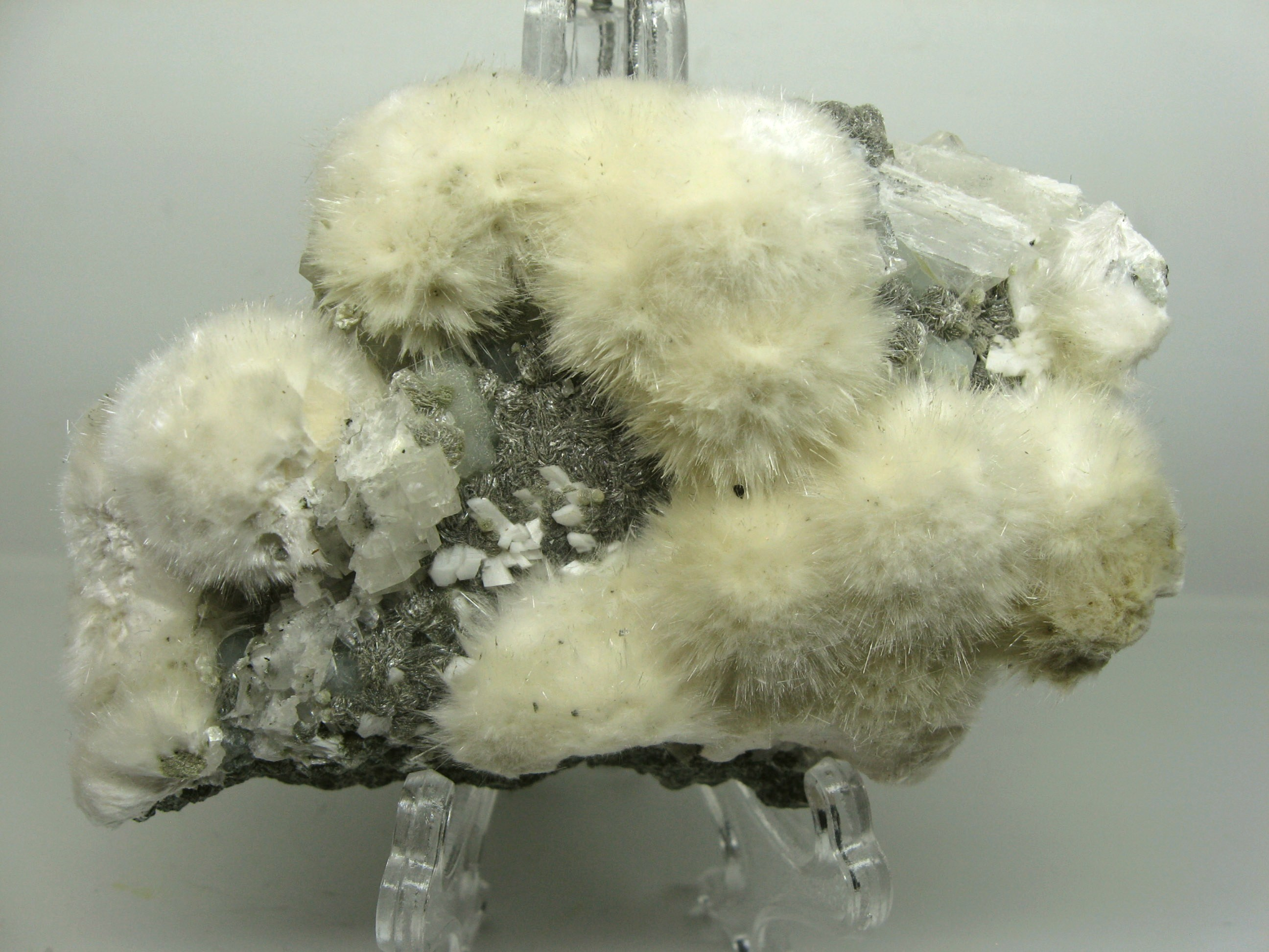 Okenite from Crimean peninsula